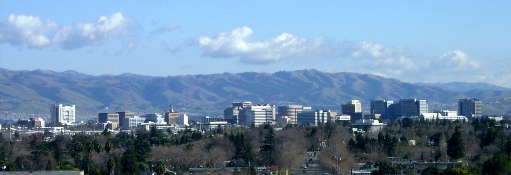 Photo of the San Jose, California skyline in 2006. North is to roughly to the left; looking roughly southeast towards Mount Hamilton in the Diablo Range.